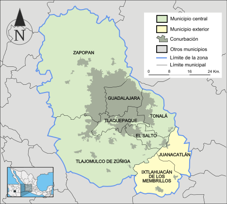 Guadalajara's city spot